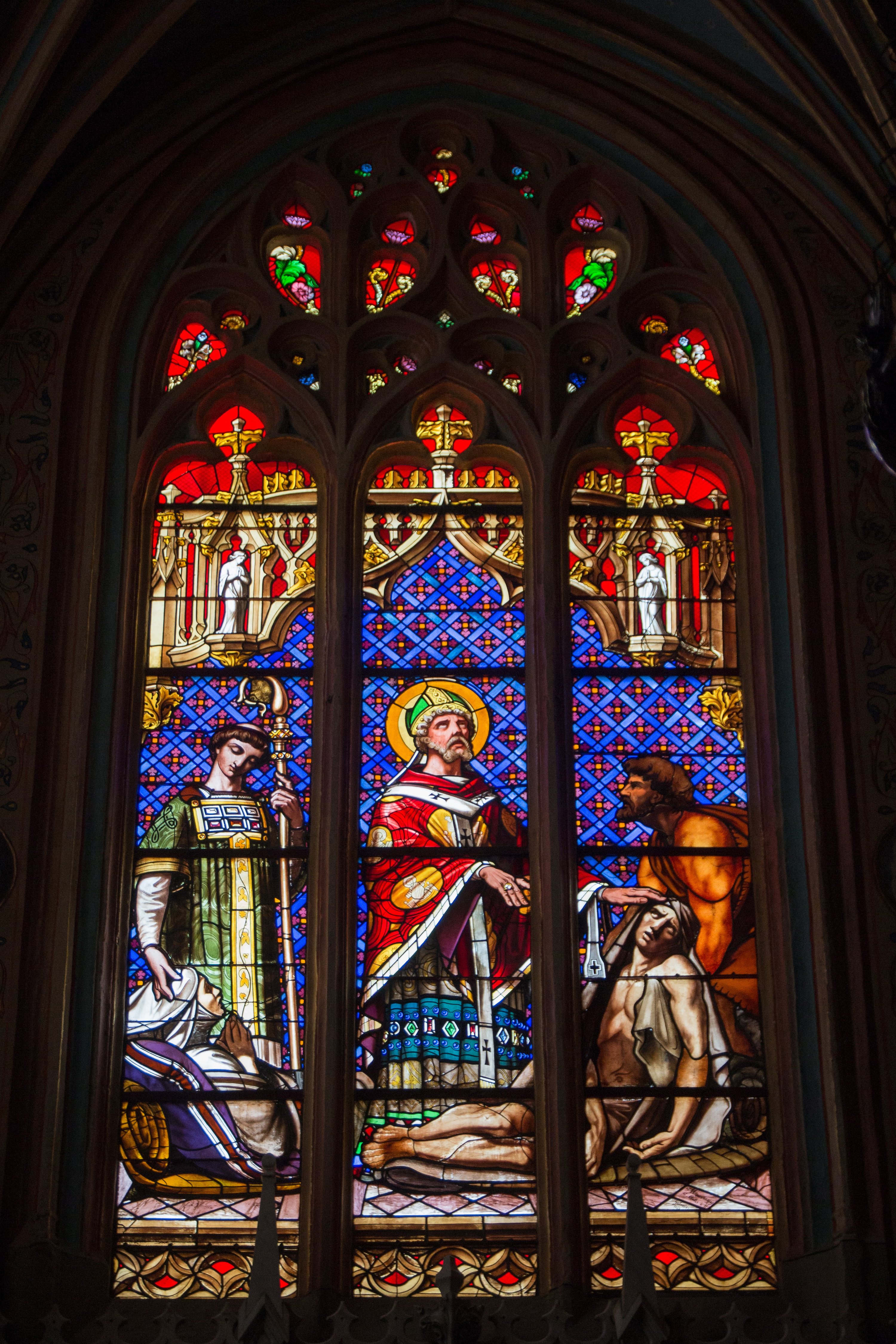 Saint Fulcran heals the sick under the patronage of St Genies, first patron saint of the city.